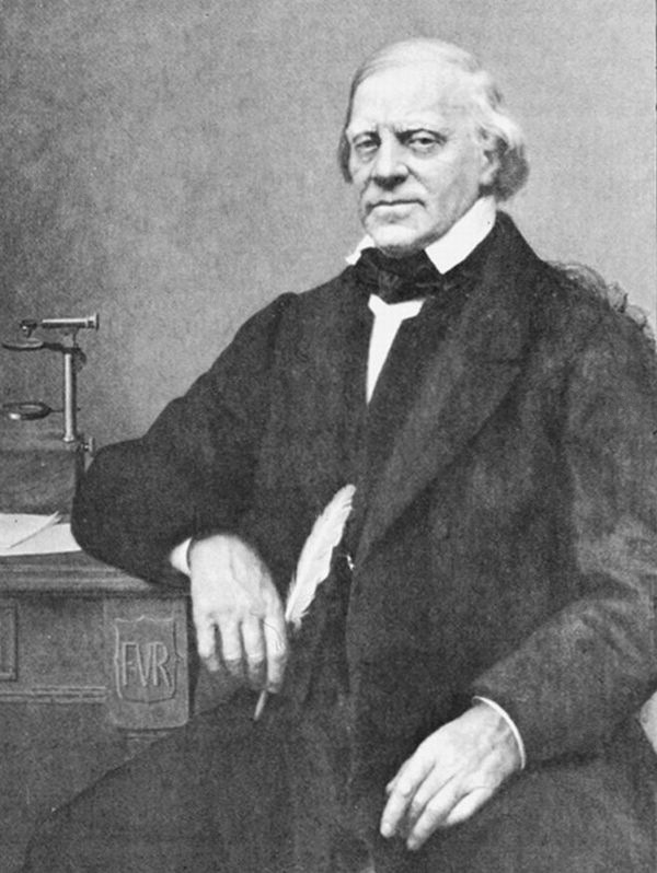 French physician, chemist and politician François-Vincent Raspail (1794-1878)